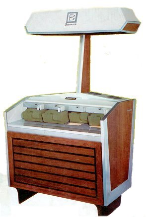 Brunswick's Automatic Scorer 1971 for keeping score by computer